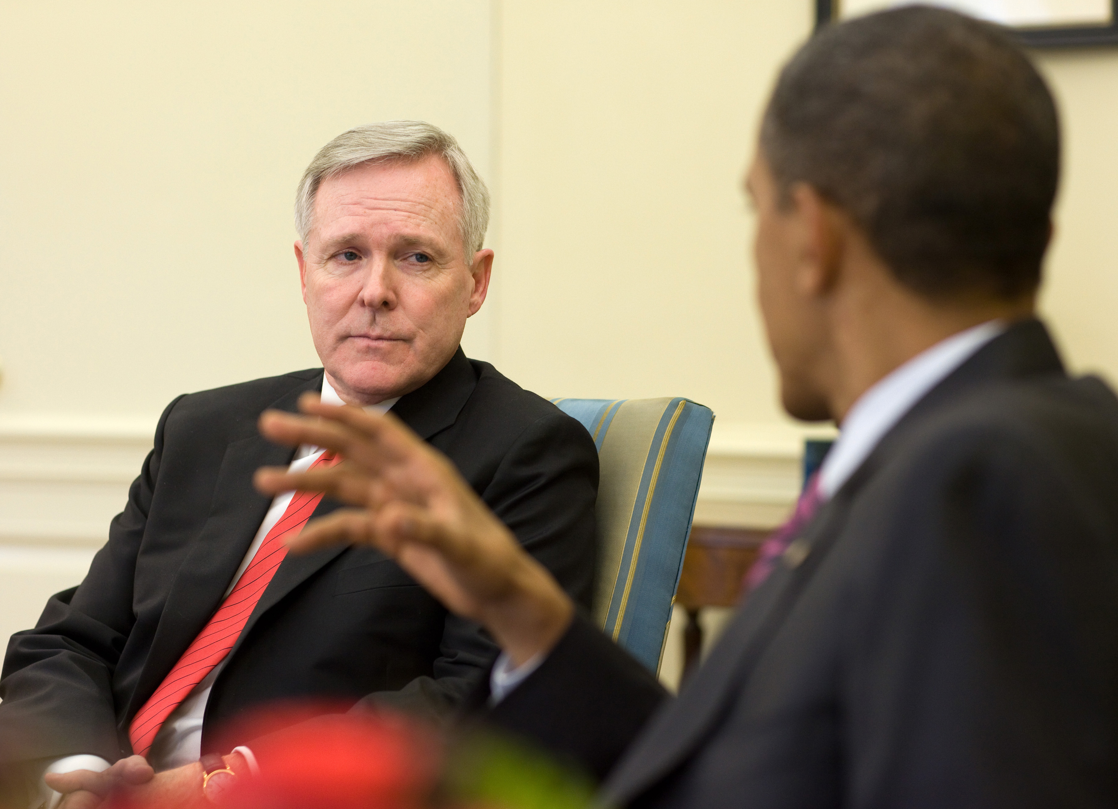 Image courtesy of The White House. President Barack Obama meets with Secretary of the Navy Ray Mabus in the Oval Office, June 17, 2010. (Official White House Photo by Pete Souza)